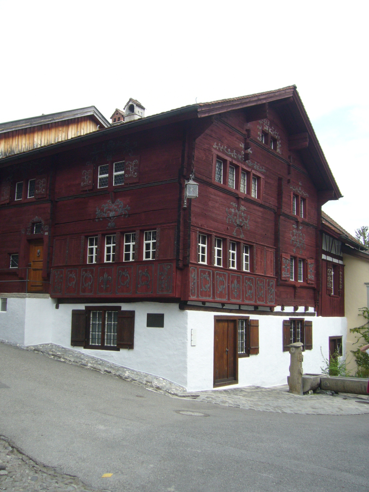 House of birth of Prof. Carl Hilty in Werdenberg (Gams) SG, Switzerland